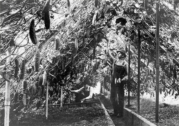 Cucumbers reached to the ceiling in a Bachman greenhouse in the township of Richfield, Minnesota.